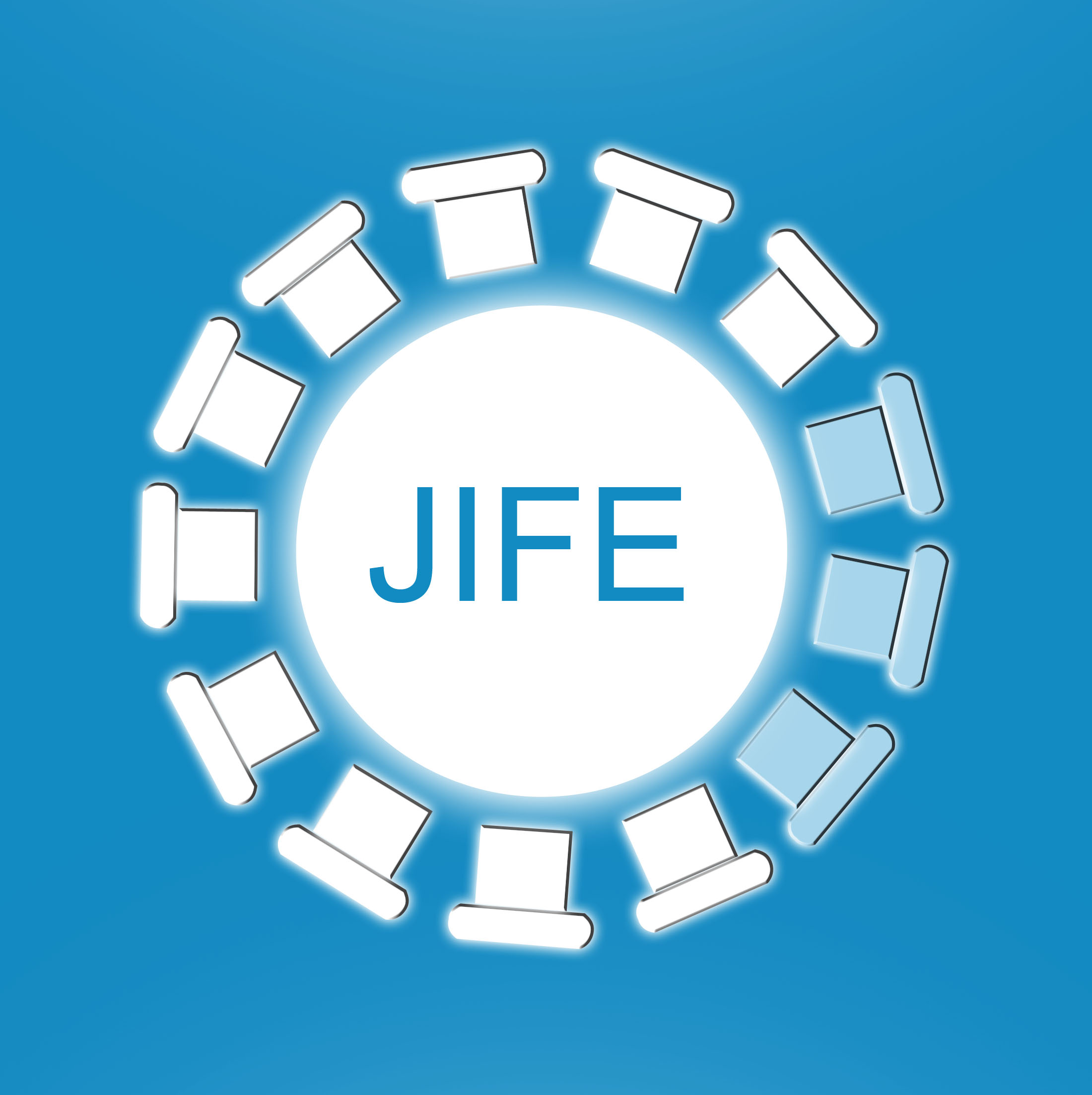 [INCB/JIFE Logo]